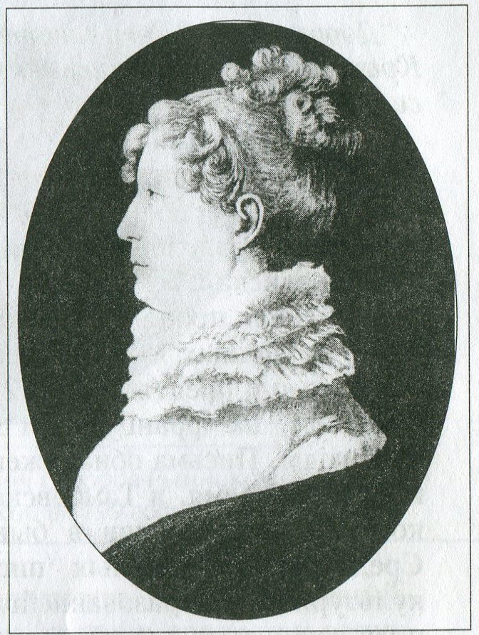 Natalia Passek (nee Olenina), wife of Piotr Petrovich Passek, genaral-major, decembrist